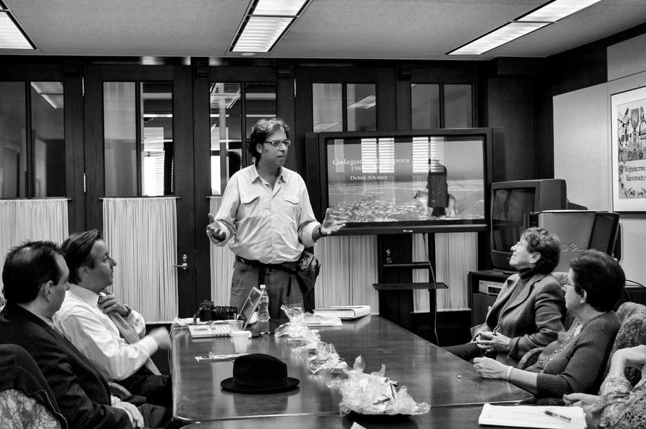 Delmi Alvarez talk about Galician Diaspora book at Library of Congress in Washington DC, 2009.